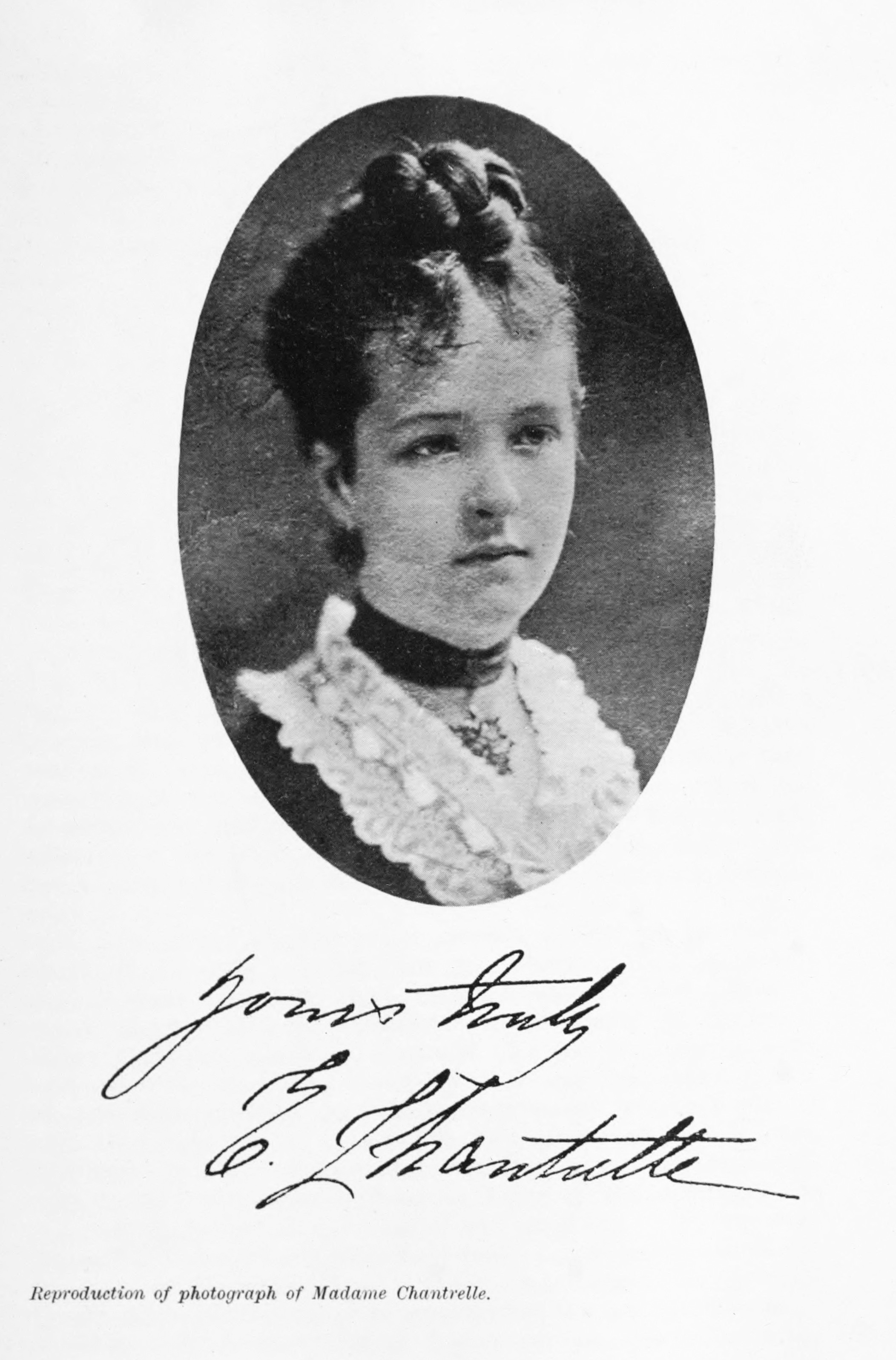 Reproduction of photograph of Madame Chantrelle